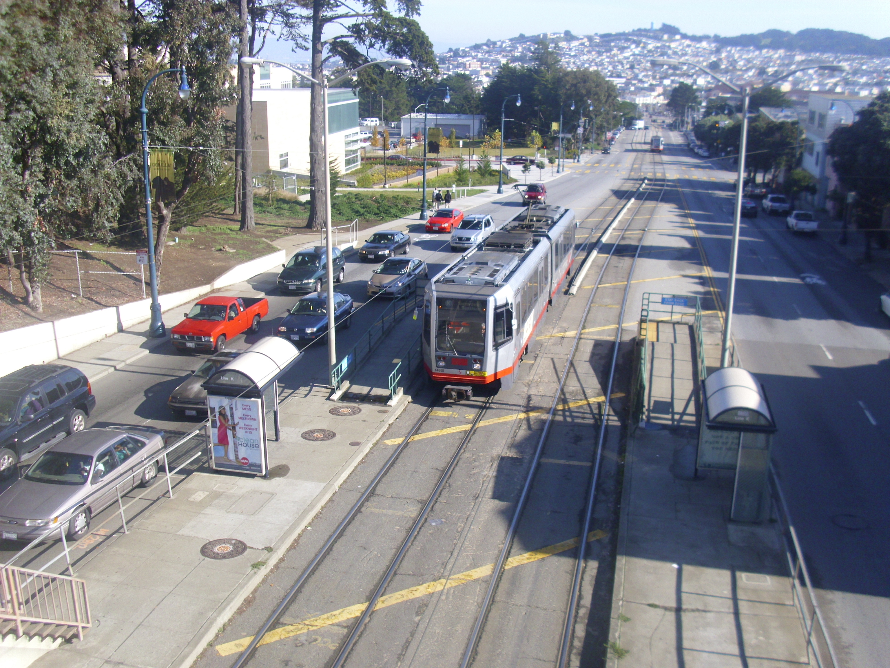 A San Francisco Municipal Railway Breda streetcar operating as a K Ingleside inbound at the City College stop